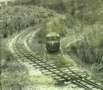 Vauxhall railbus at the zig-zag of the two foot gauge Lake Margaret tram in South Western Tasmania, photo by LB Manny, 1962